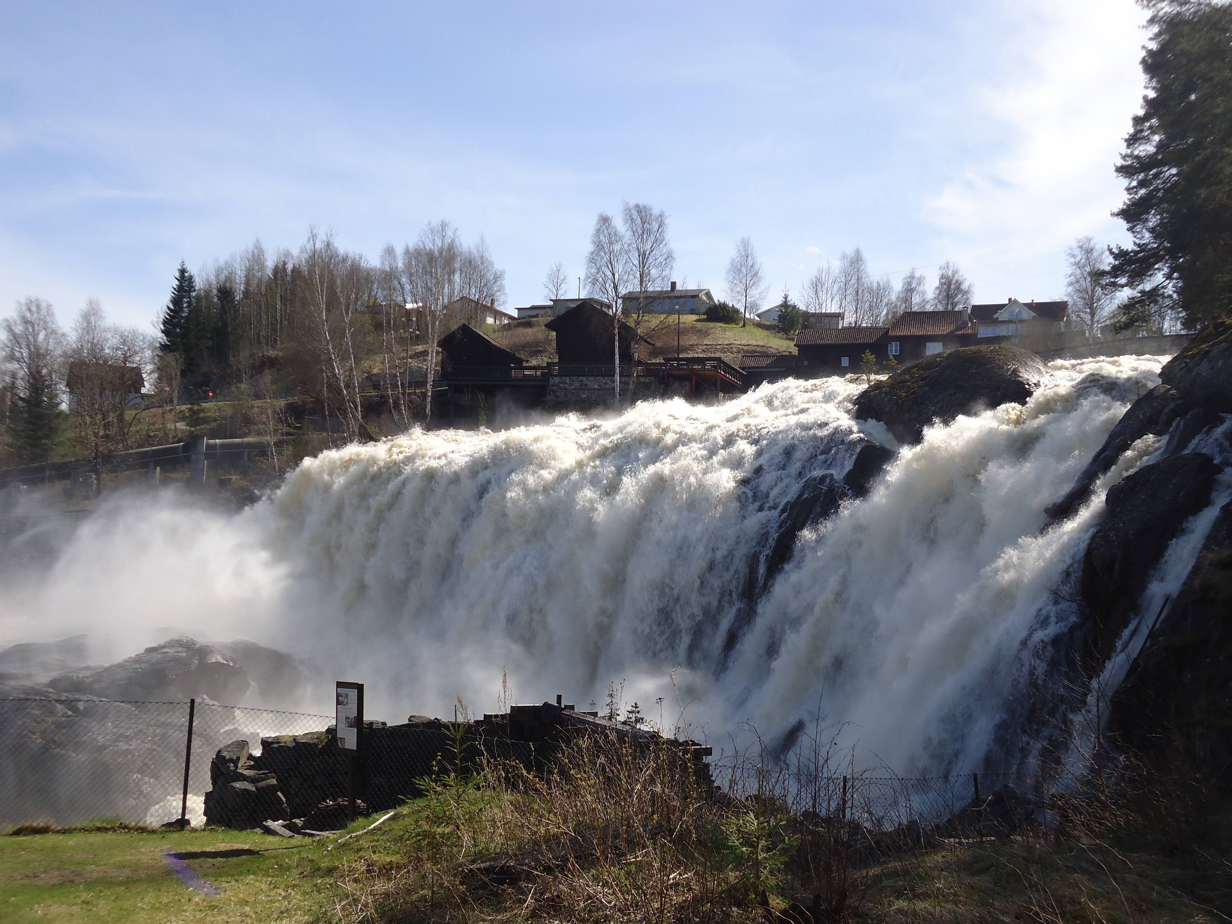 The waterfall Haugfoosen